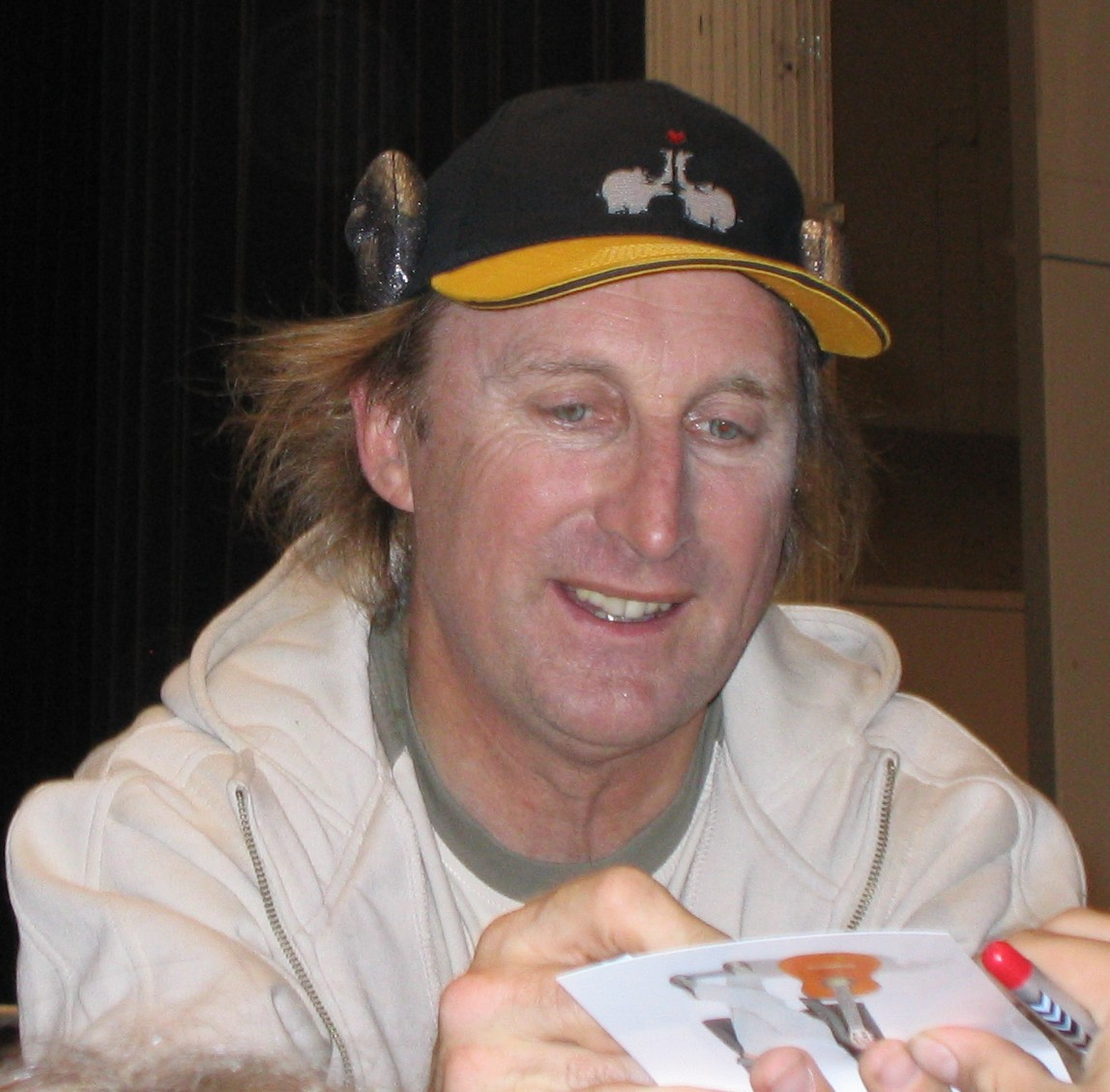 Otto Waalkes live in Freiburg im Breisgau